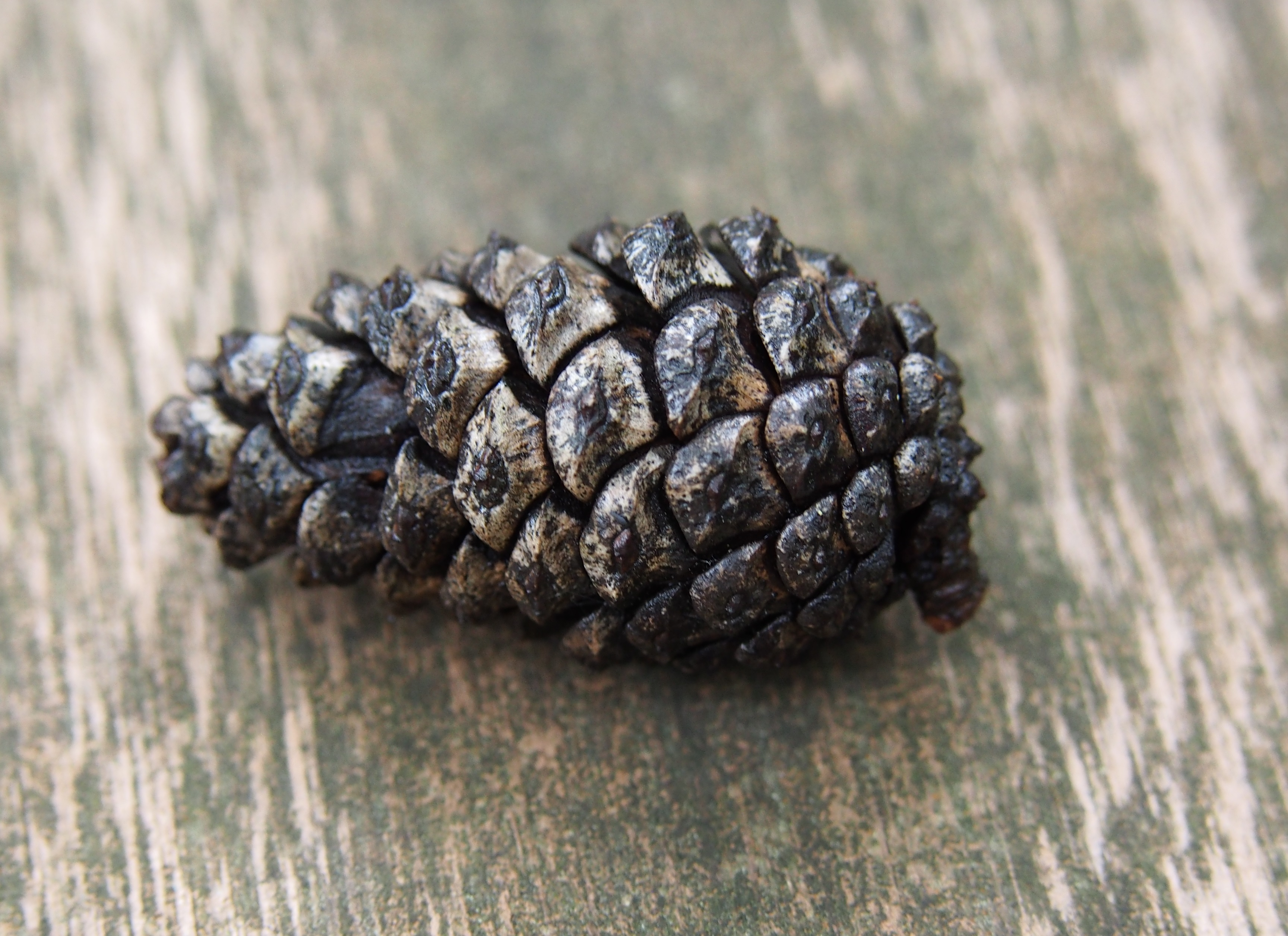 Pine cone